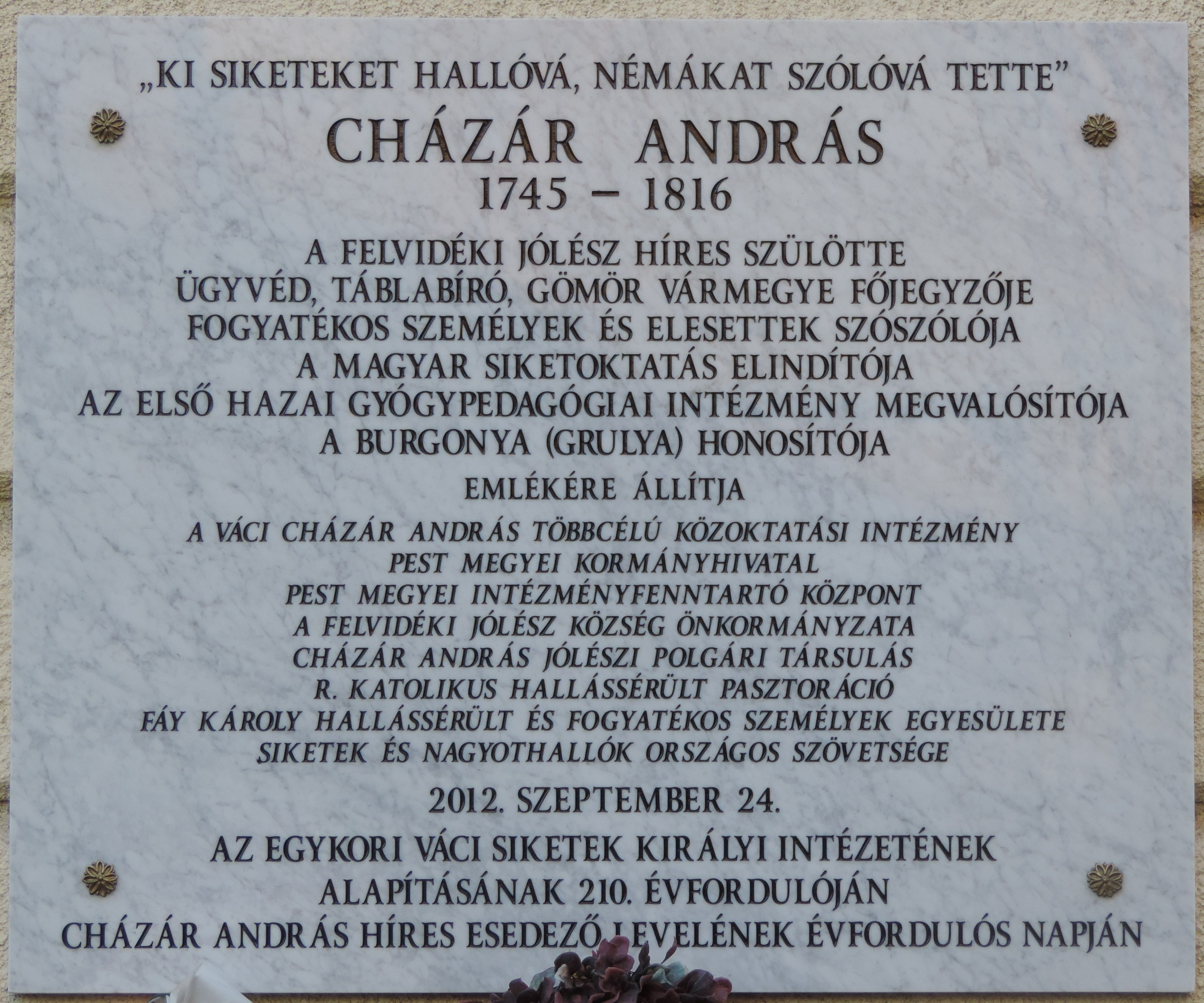 Plaque to András Cházár in Budapest XIV, Cházár András utca 4.